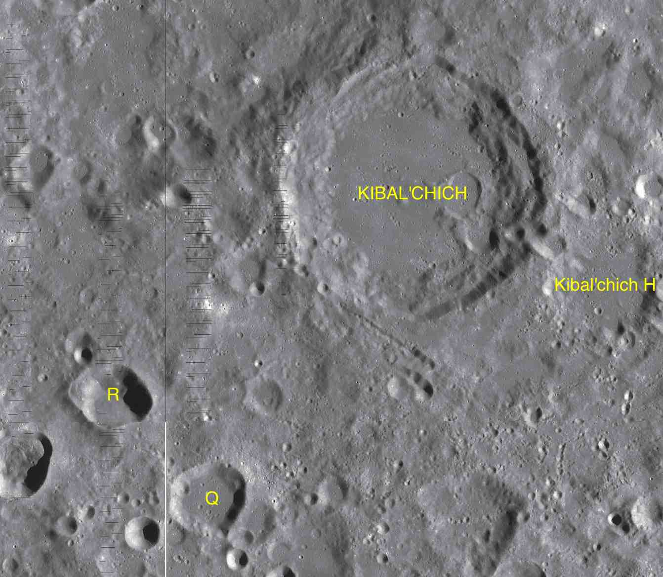 Parts of the charts LAC-69, LAC-70, LAC-87, LAC-88 used for the presentation.